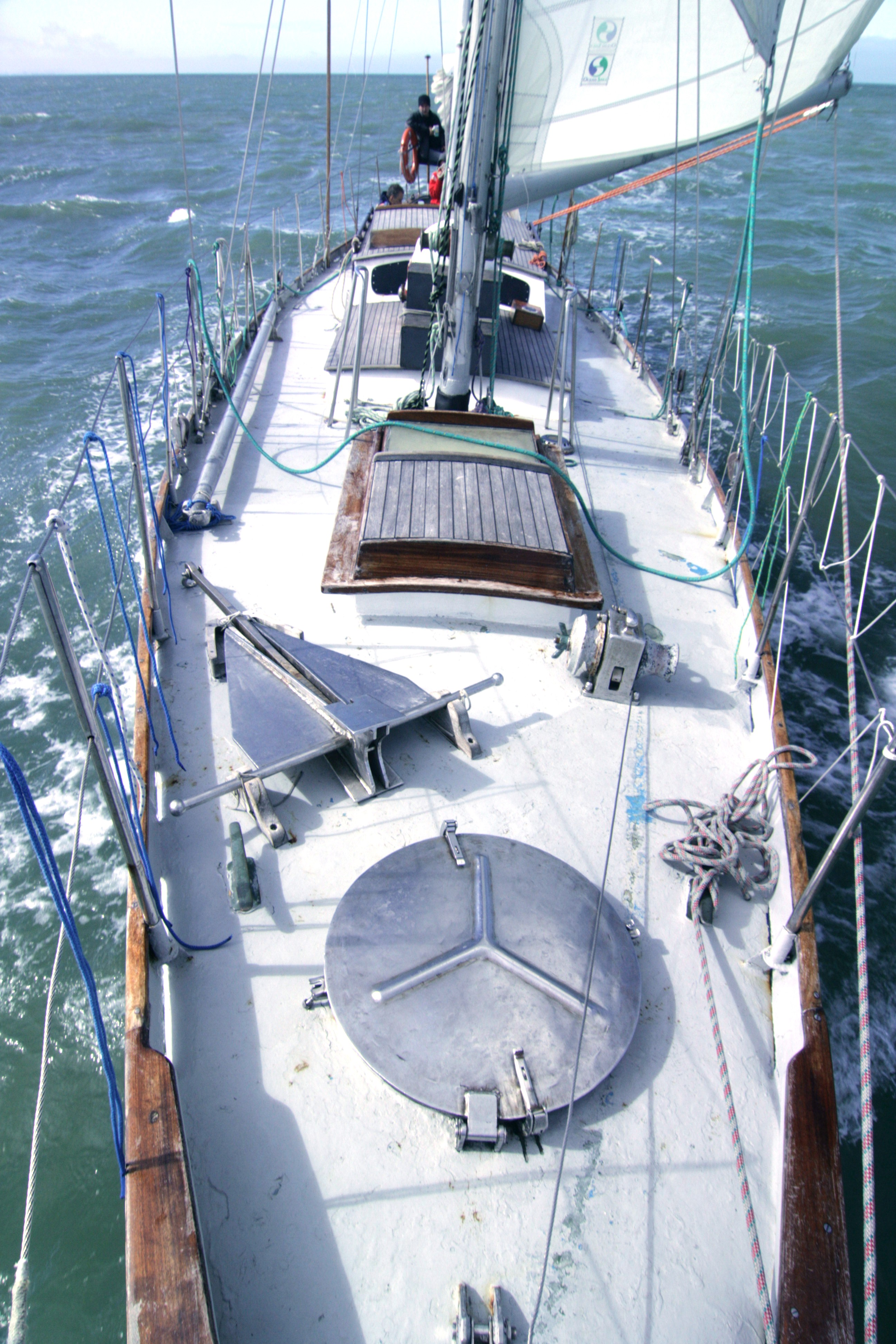 SY Bies deck